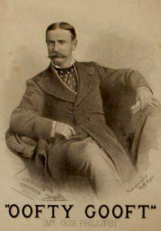 autograph card of Augustus („Gus“) Phillips (1838-1893) aka Oofty Gooft